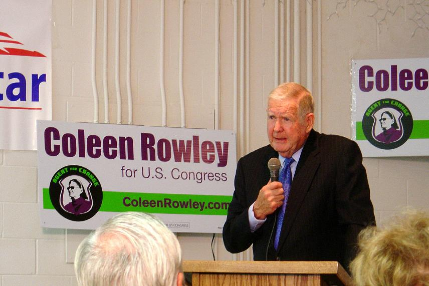 US Representative John Murtha of Pennsylvania endorsing Coleen Rowley as the DFL candidate for Minnesota's 2nd Congressional District on 17 September 2006 in Rosemount, MN